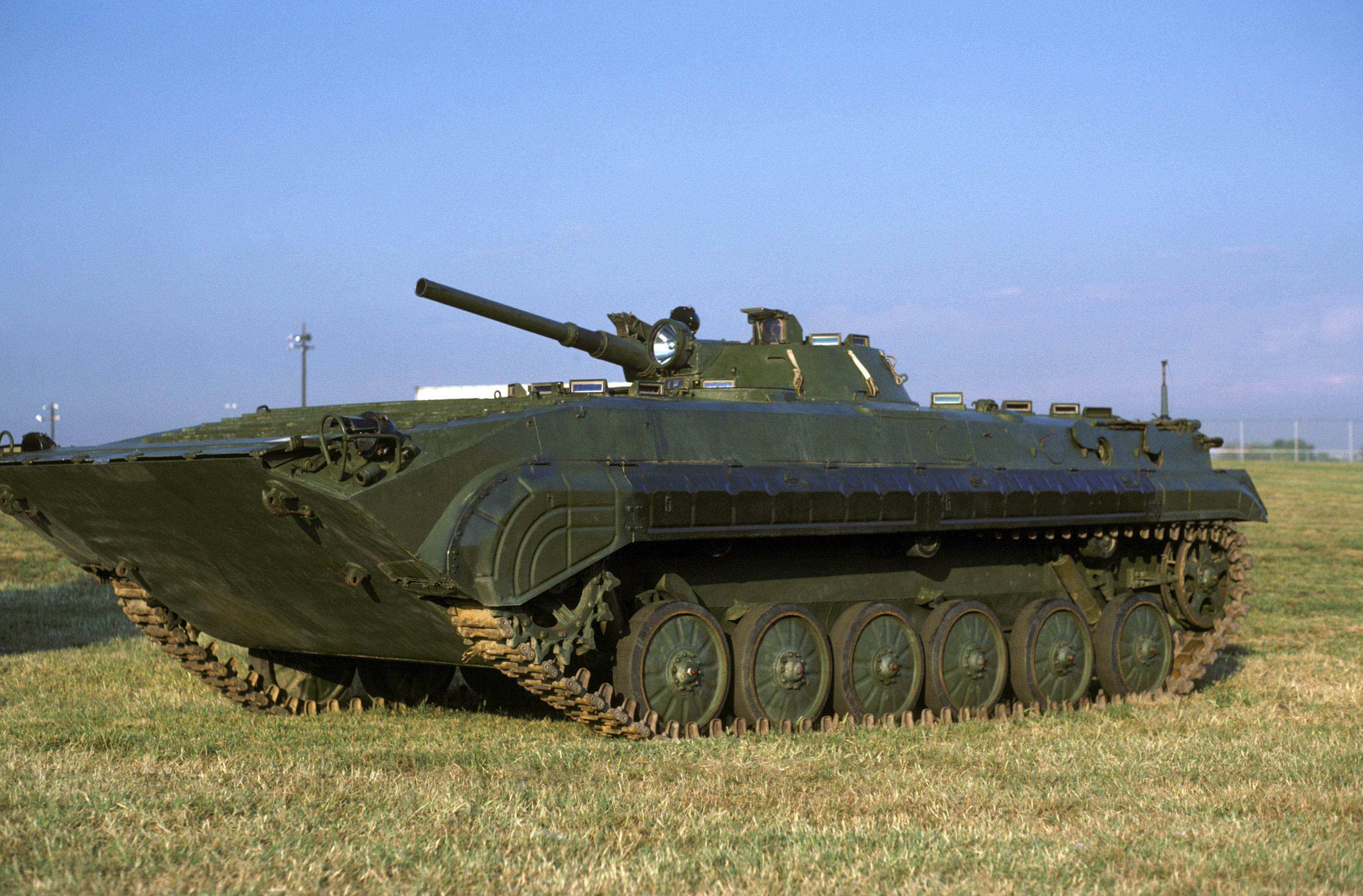 A left front view of a Soviet BMP-1 mechanized infantry vehicle. The vehicle is on display at Bolling Air Force Base.